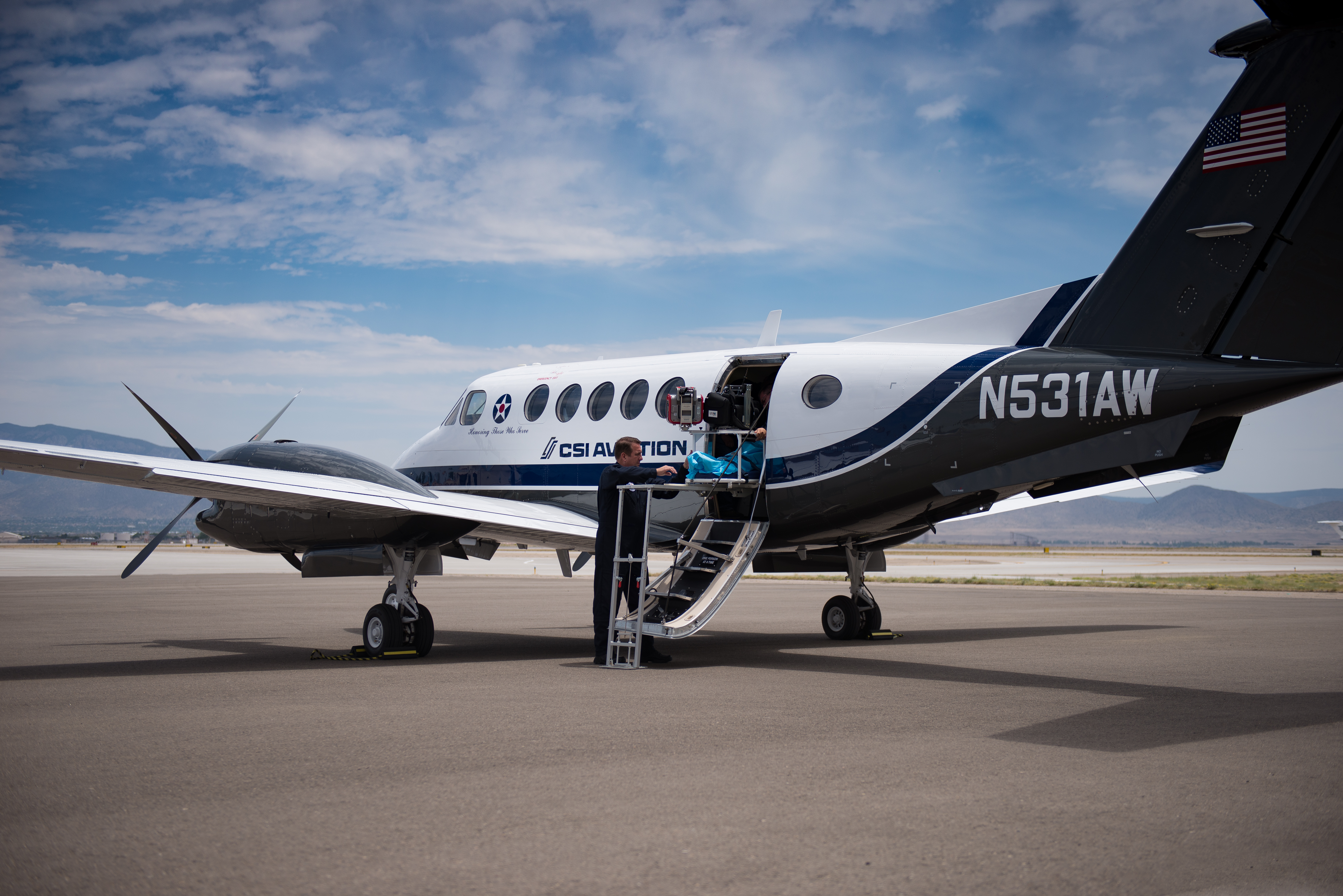 Loading a patient onto a King Air on the Tarmac.